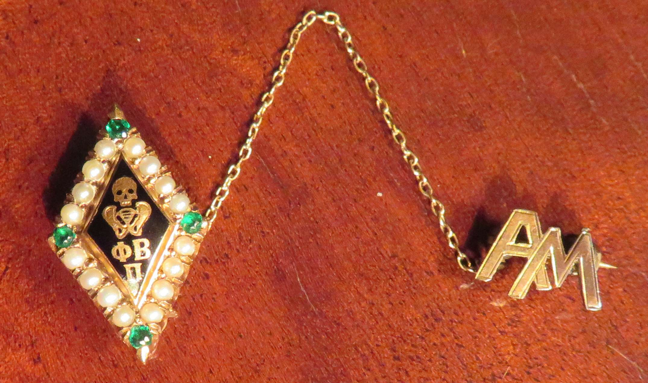 Phi Beta Pi pin (back engraved with owner's name and year. Owner would have been in his first or second year of medical school)